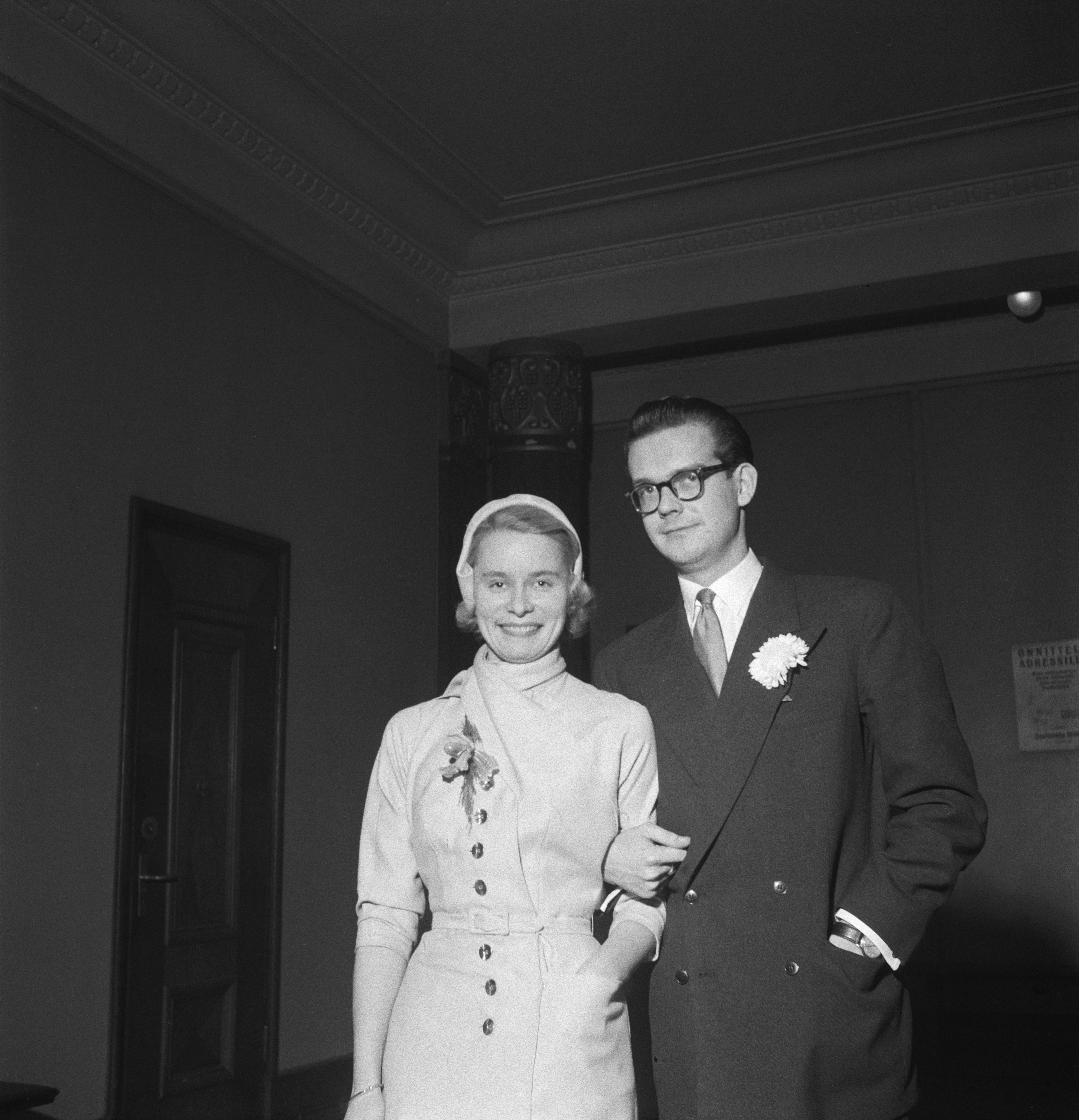 Photograph of the Finnish actor Kyllikki Forssell and husband Baron Erik Indrenius-Zalewski on their wedding day.